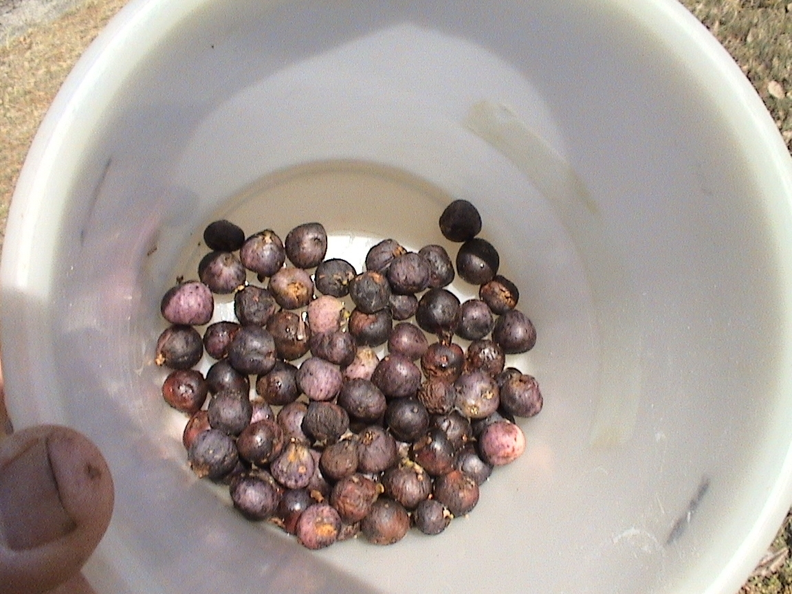 Kevin McCready